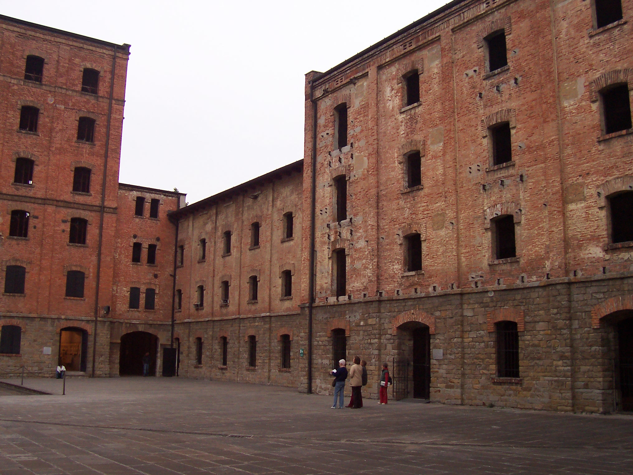 Risiera di San Sabba a Trieste. Source photographed by myself Photographer Pier Luigi Mora Date 2005-10-30 Camera Data Camera Kodak CX6330 zoom digital camera